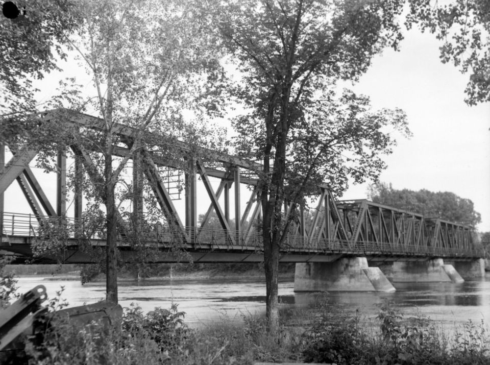 We see the railway bridge in Bordeaux, Canadian Pacific property between Laval and Montreal.